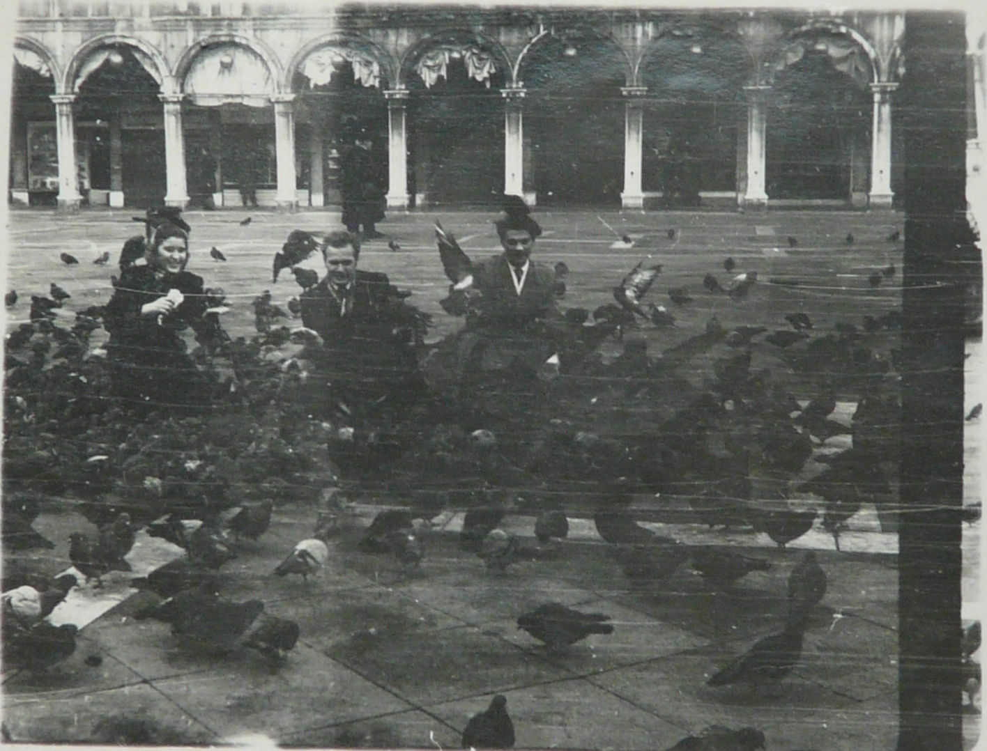 Crew members of the Soviet steam ship Nezhin on the Plazza San Marco (Venezia). Photo was maden or in period between October 1958 and April 1959, or in period between end of Nctober 1959 and March 1960, as per people dress on the photo and the presence of the author of this photo on the ship.